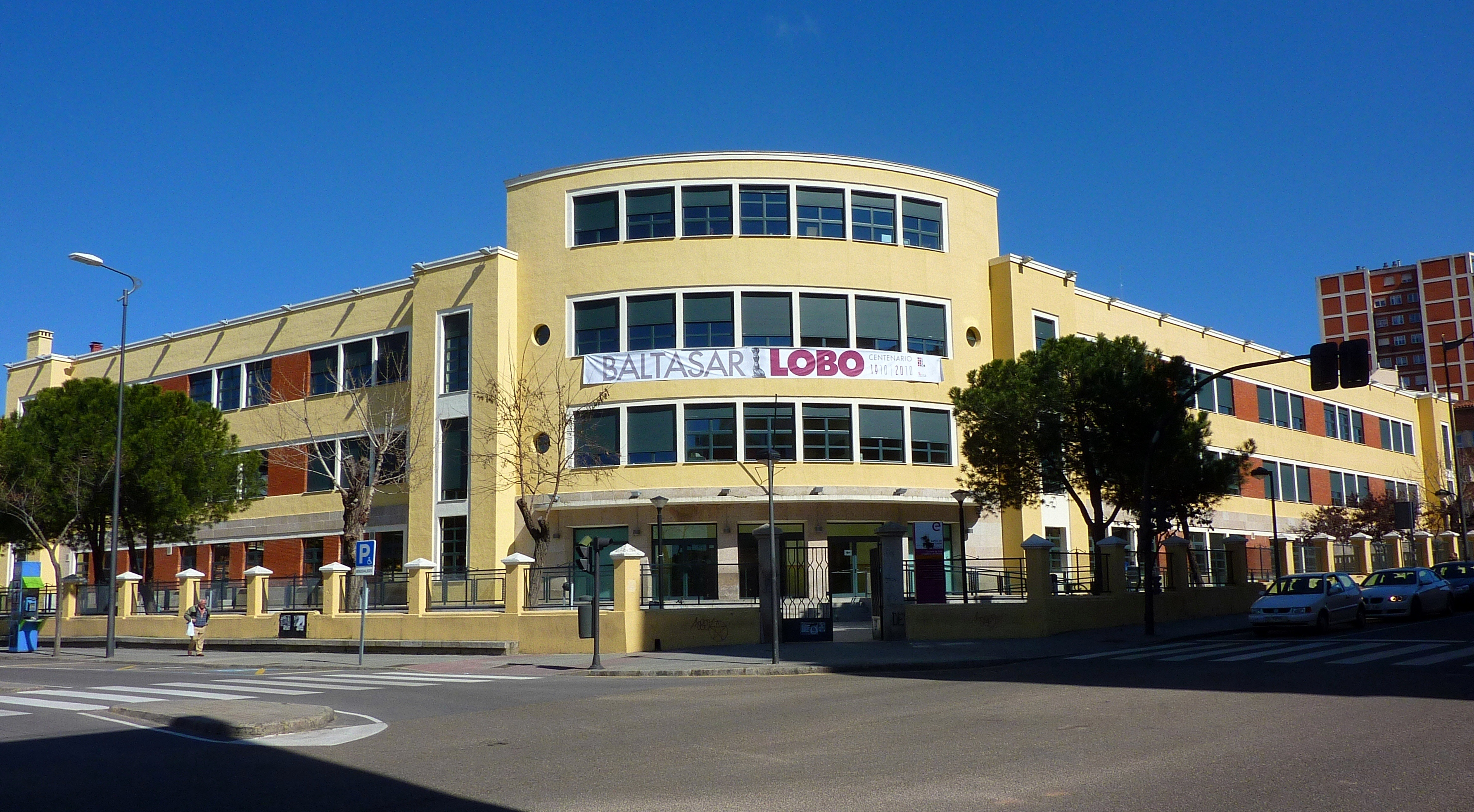 Art and Design School, Zamora, Spain.